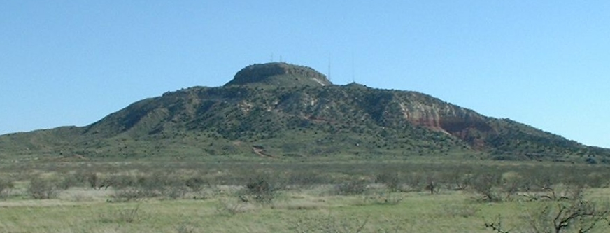 Tucumcari Mountain near Tucumcari, New Mexico, USA. I took this photo and release it.